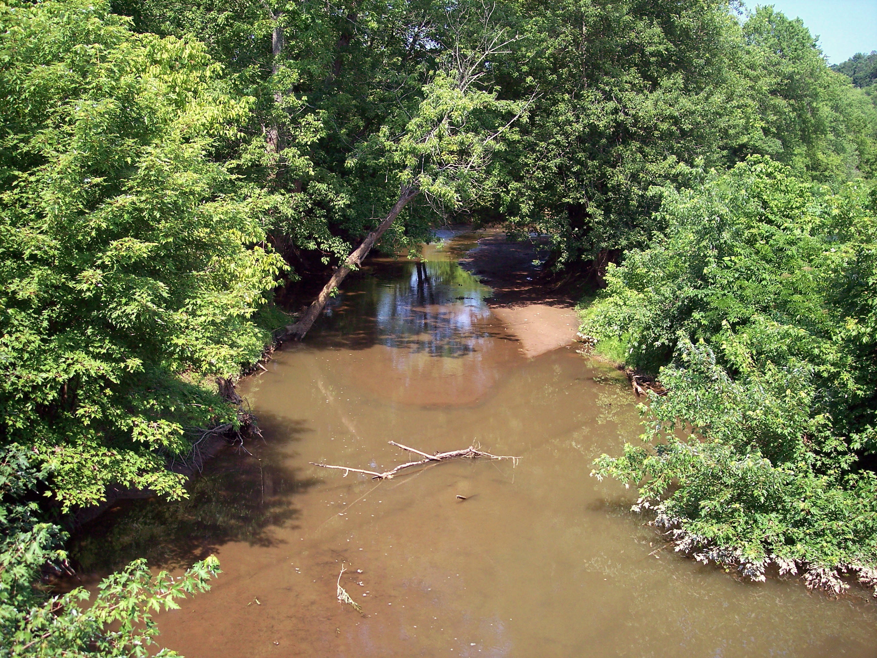 Leading Creek in Rutland Township, Meigs County, Ohio, as viewed from Township Road 346 (Rife Road).